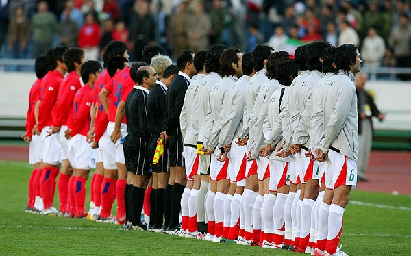 AFC Asian Cup 2007 qualification - Iran v South Korea, 15 November 2006